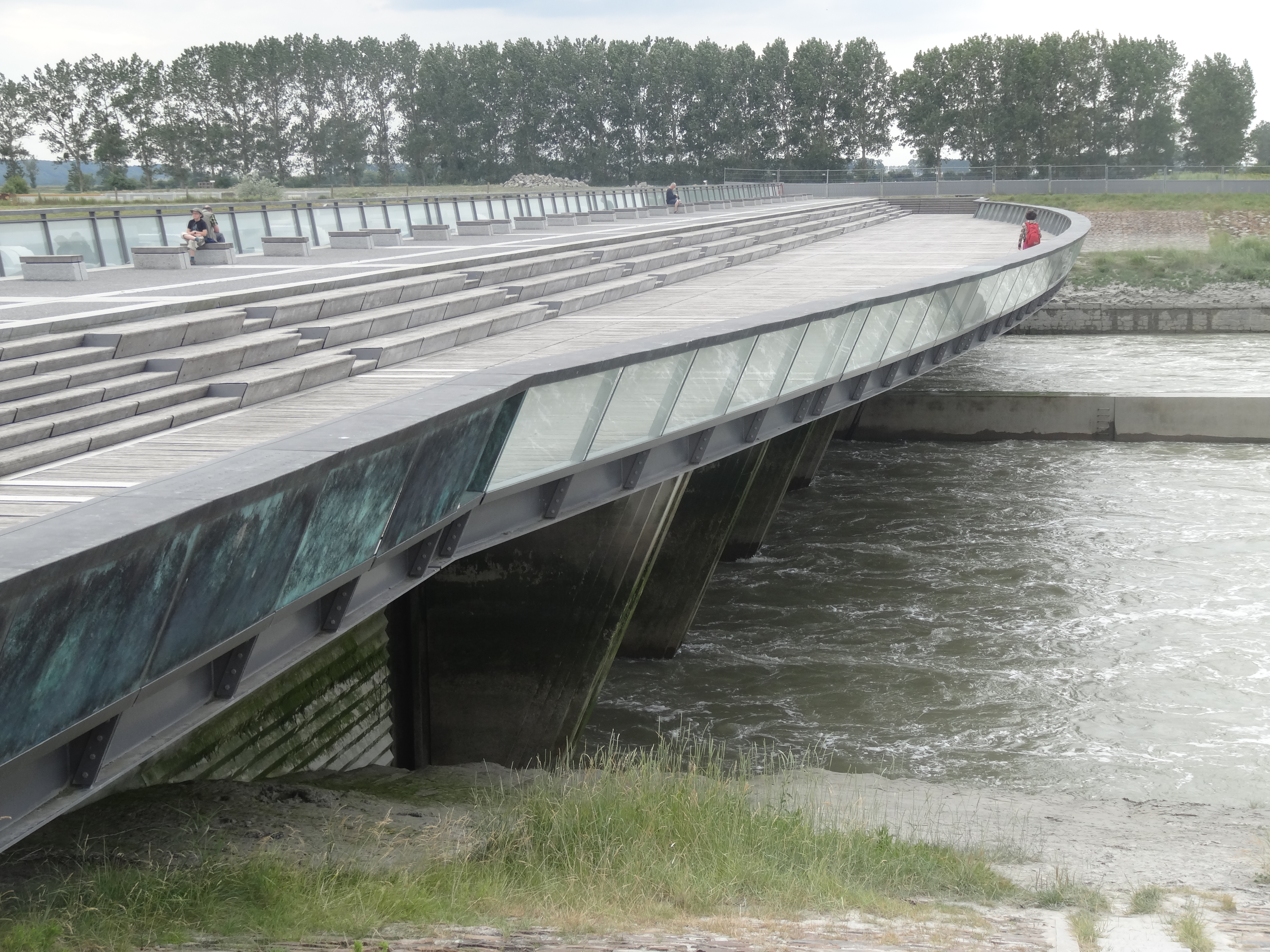 Barrage sur le Couesnon (2014)